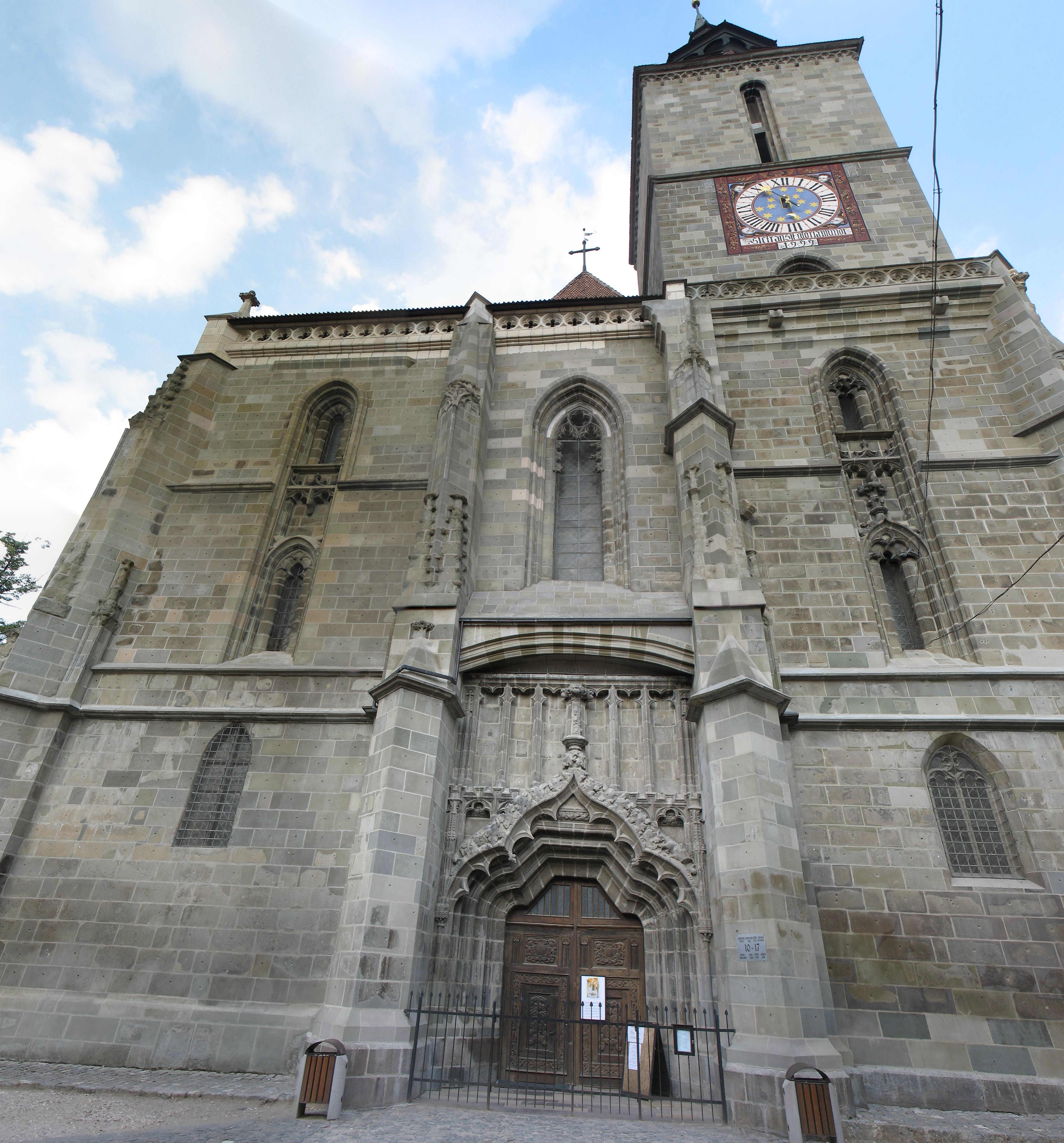 Biserica Neagră. Braşov, Romania